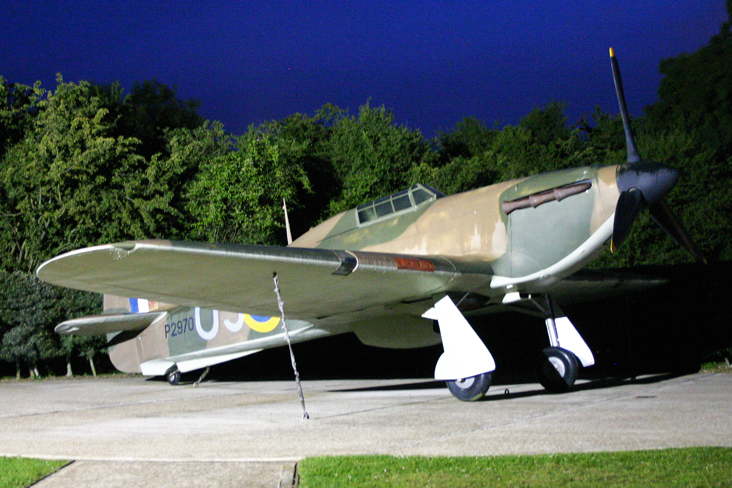 RAF 56sqn marks as flown by Geoffrey Page. On the BAPC register as BAPC291. Seen late in the evening of 07-07-2011.